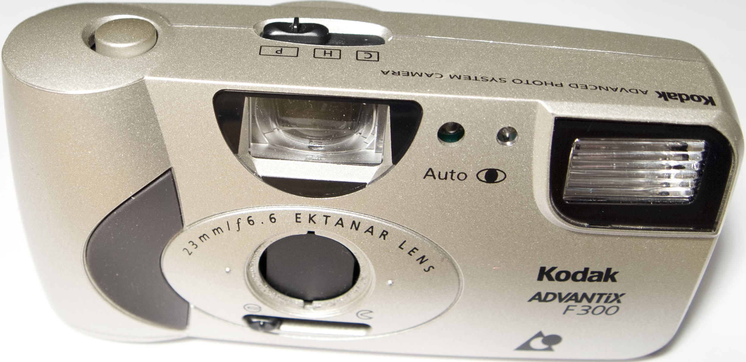 Film camera Kodak Advantix F300. This device uses APS (Advanced Photo System) films.